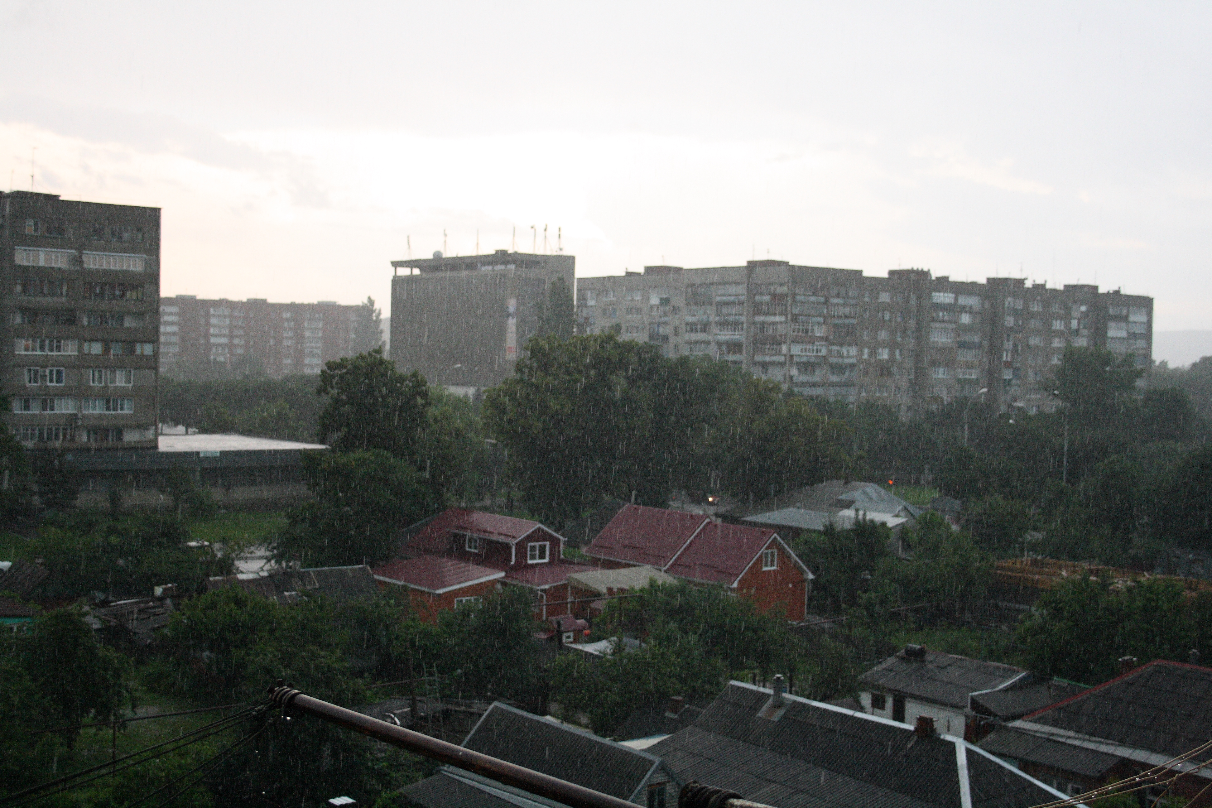 Maykop, Adygea, Russia